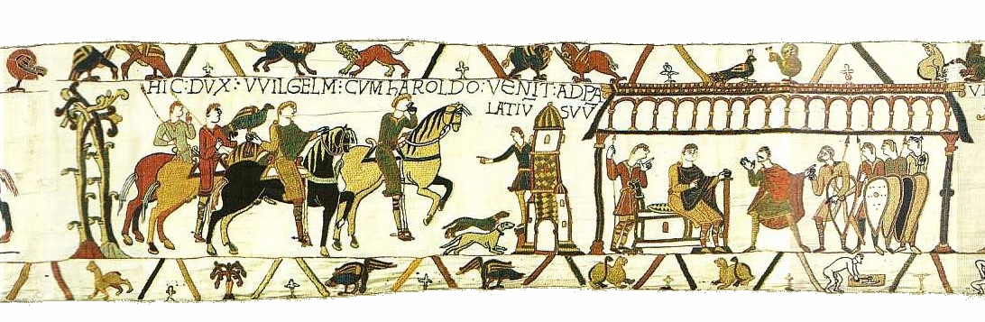 Bayeux Tapestry Scene 14